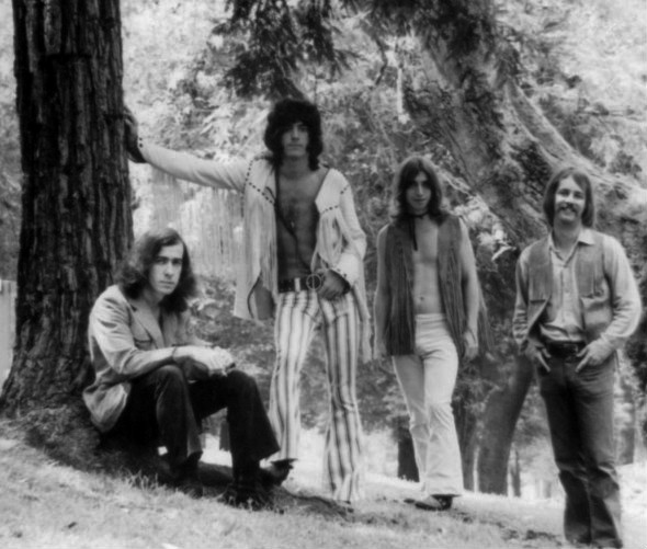 Publicity photo of the US musical group Climax.